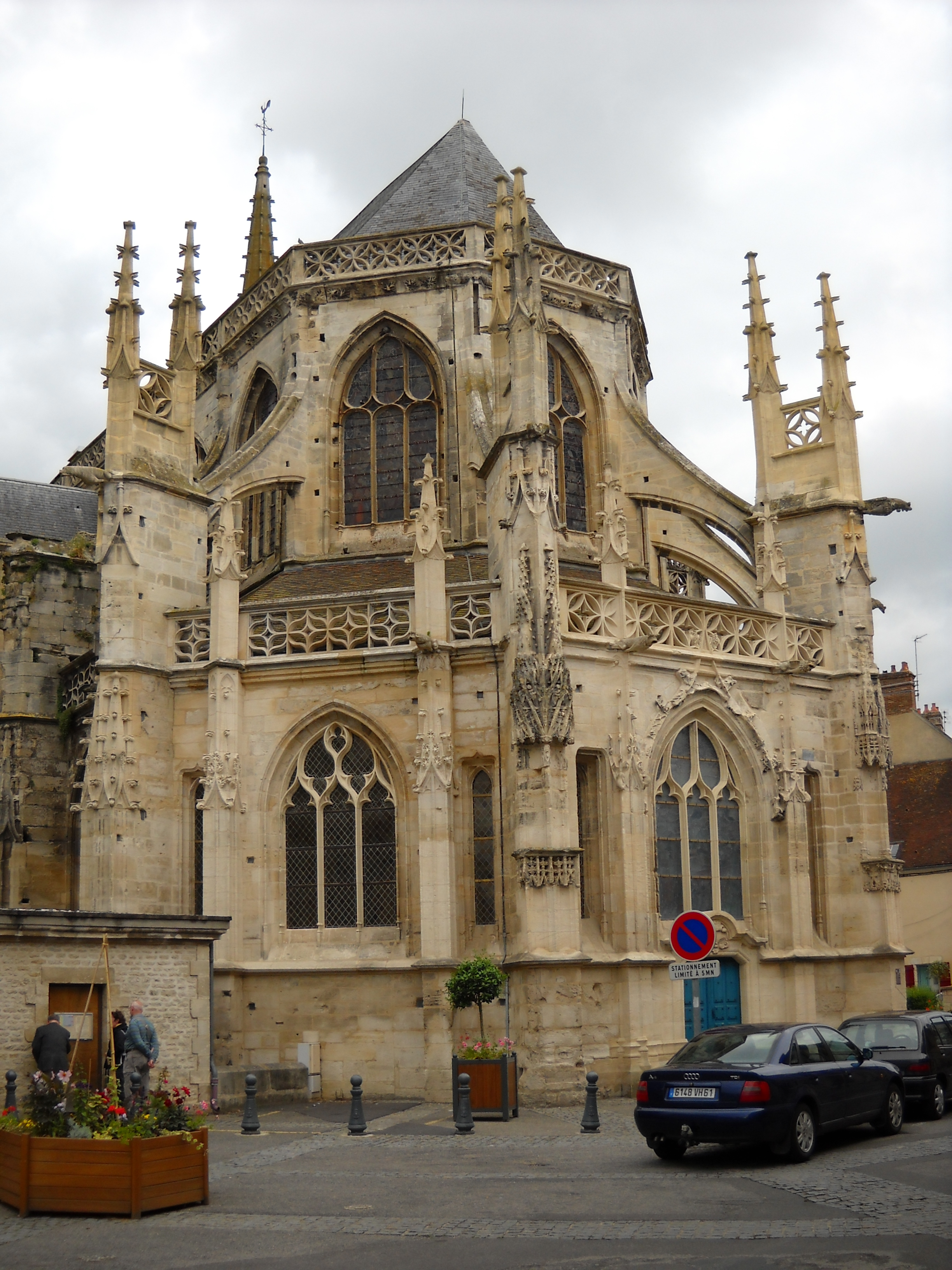 The Saint Martin Church, in Argentan, Orne, France.